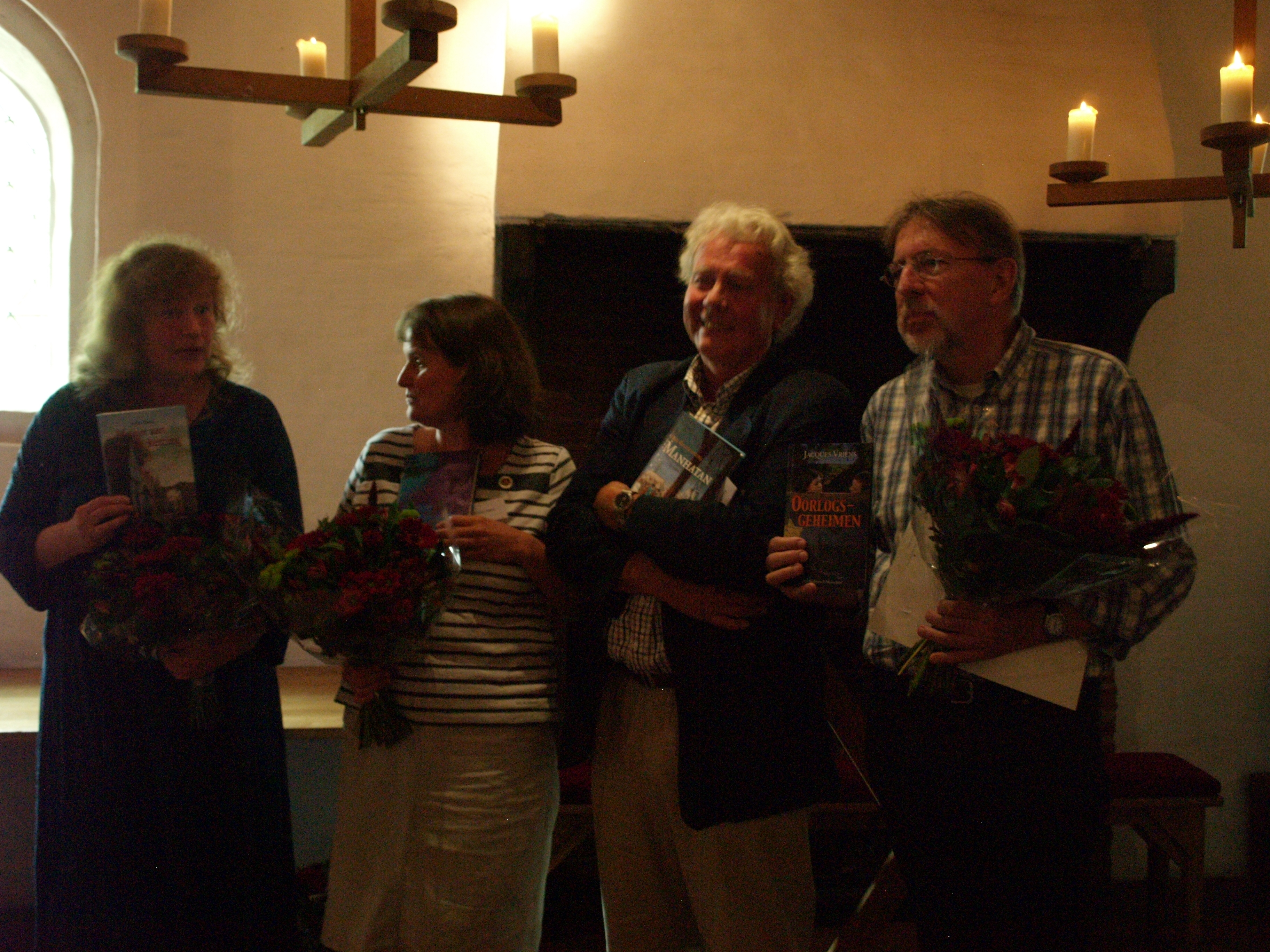 Jacques Vriens (right) won the Archeon Jeugdboekenprijs 2009 for his wonderful book Oorlogsgeheimen The four nominees and the winner!